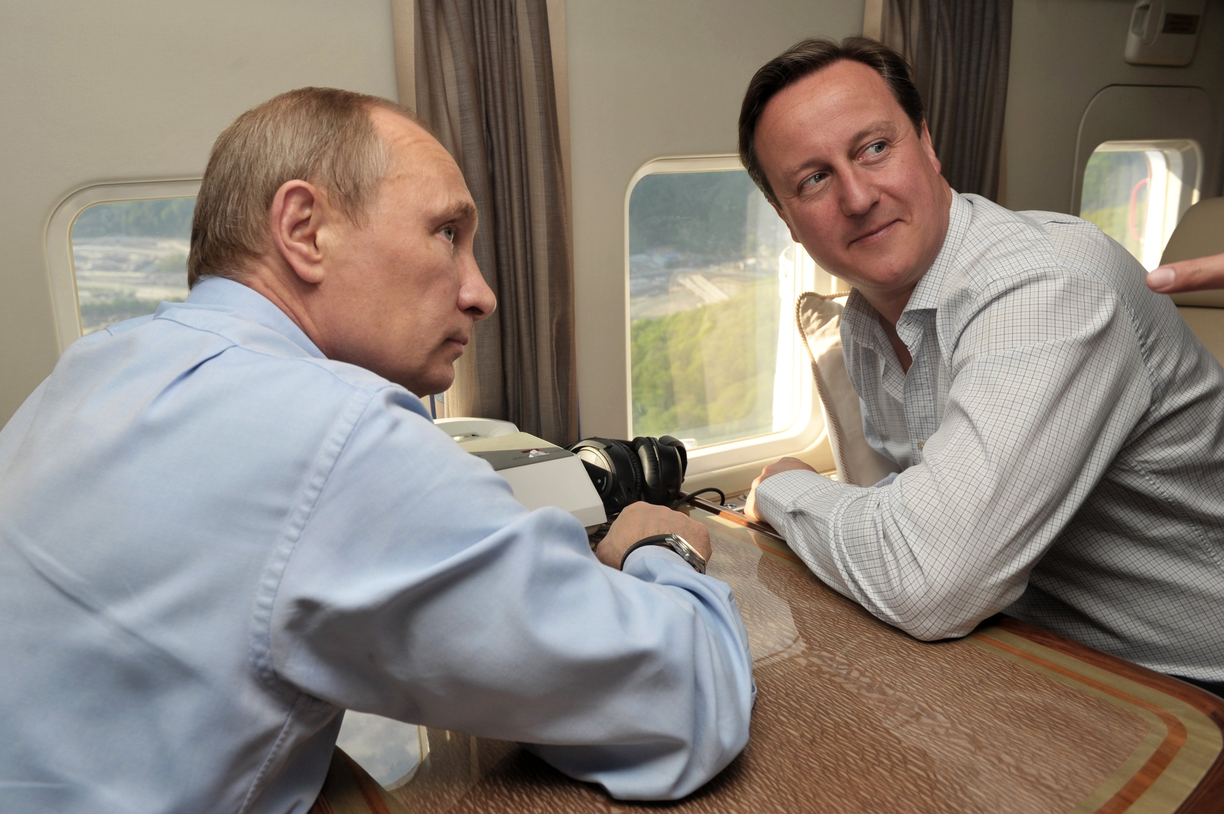 Vladimir Putin and David Cameron visited a helicopter Sochi Olympic facilities: facilities in the mountain cluster in the Imereti Valley.